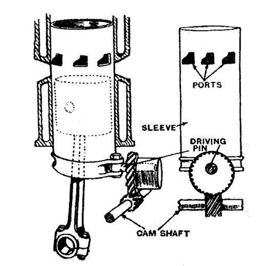 'Ch. II 'Fig. 24 Argyll single sleeve valve engine The Argyll type of sleeve valve engine, using a single sleeve and a semi-rotary motion. This type of sleeve valve was later used in Bristol aero-engines.